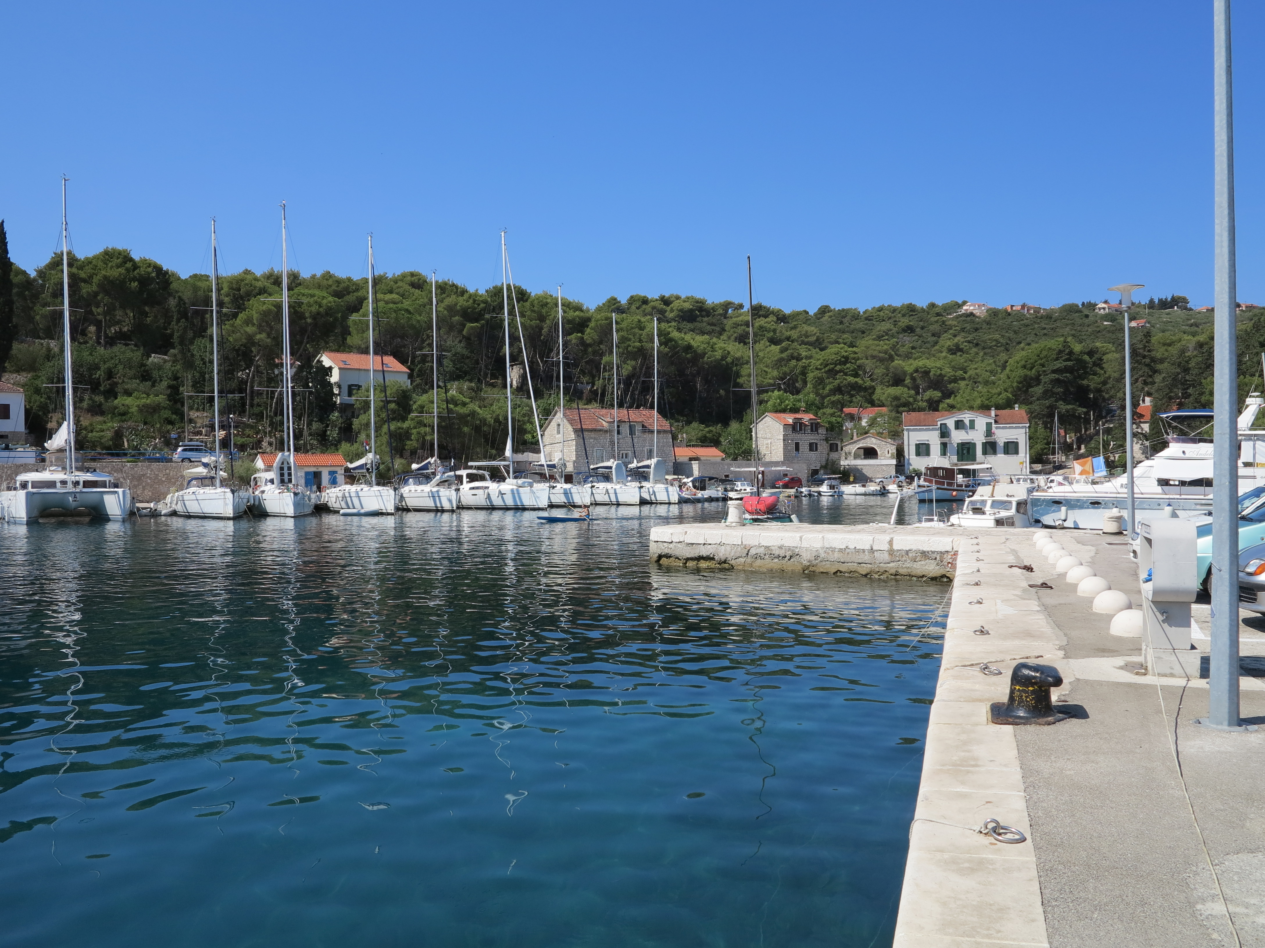 Rogač on the island Šolta / Croatia / Adriatic Sea. West Bay area, look to the southwest direction Grohote.